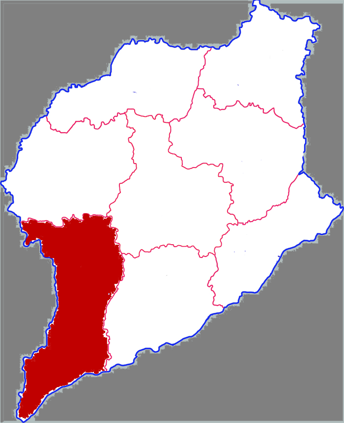 Location of Shen county in Liaocheng City, China